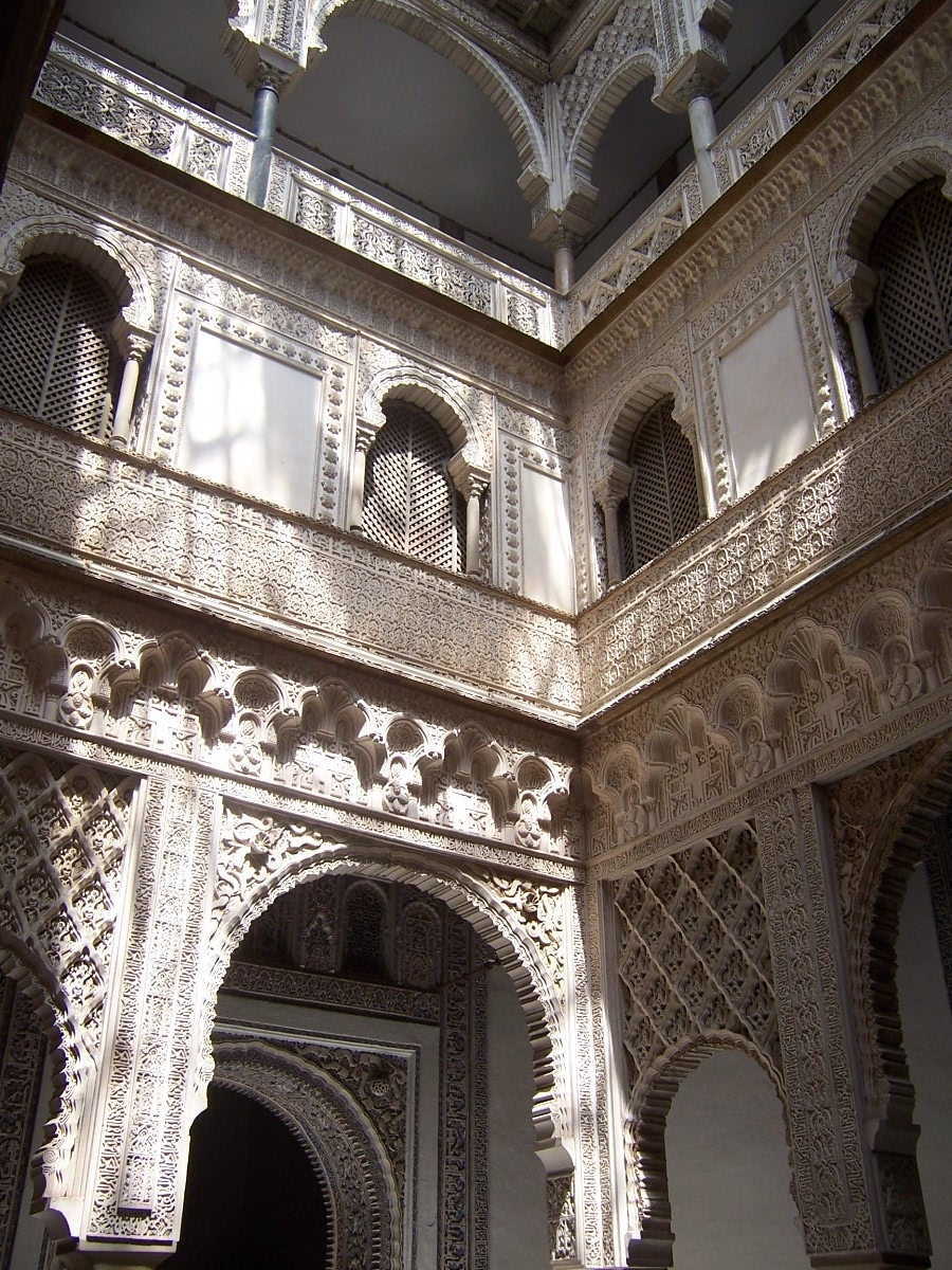 Alcázar of Seville - Spain. camera: Kodak DX7440 Source: Daniel Csorfoly